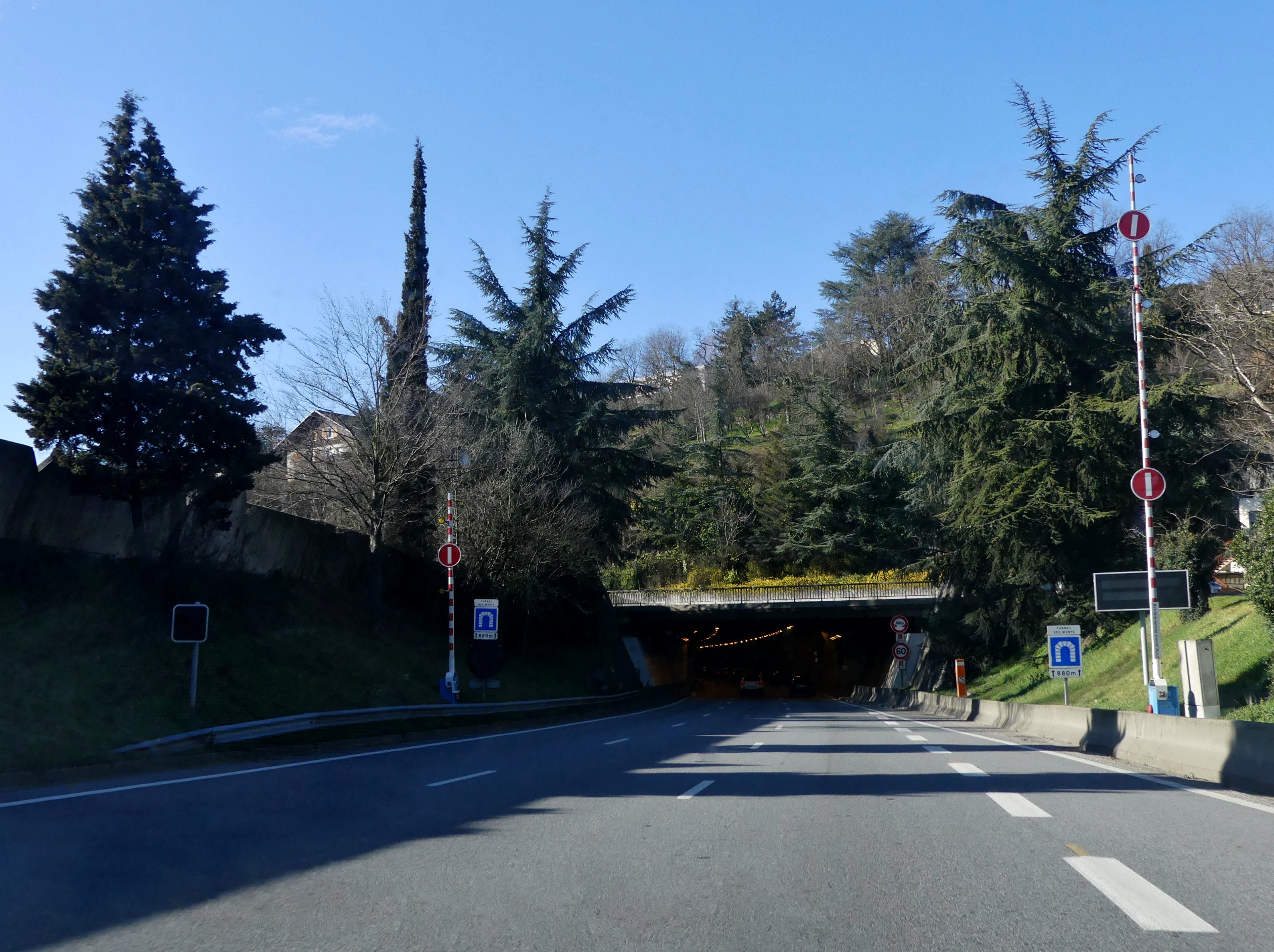 Sight of the southern entrance of Tunnel des Monts tunnel crossing Lémenc hill of Chambéry in Savoie, France.